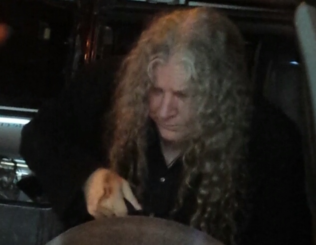 One of the members of The Skull photographed in Montréal, Québec, Canada.